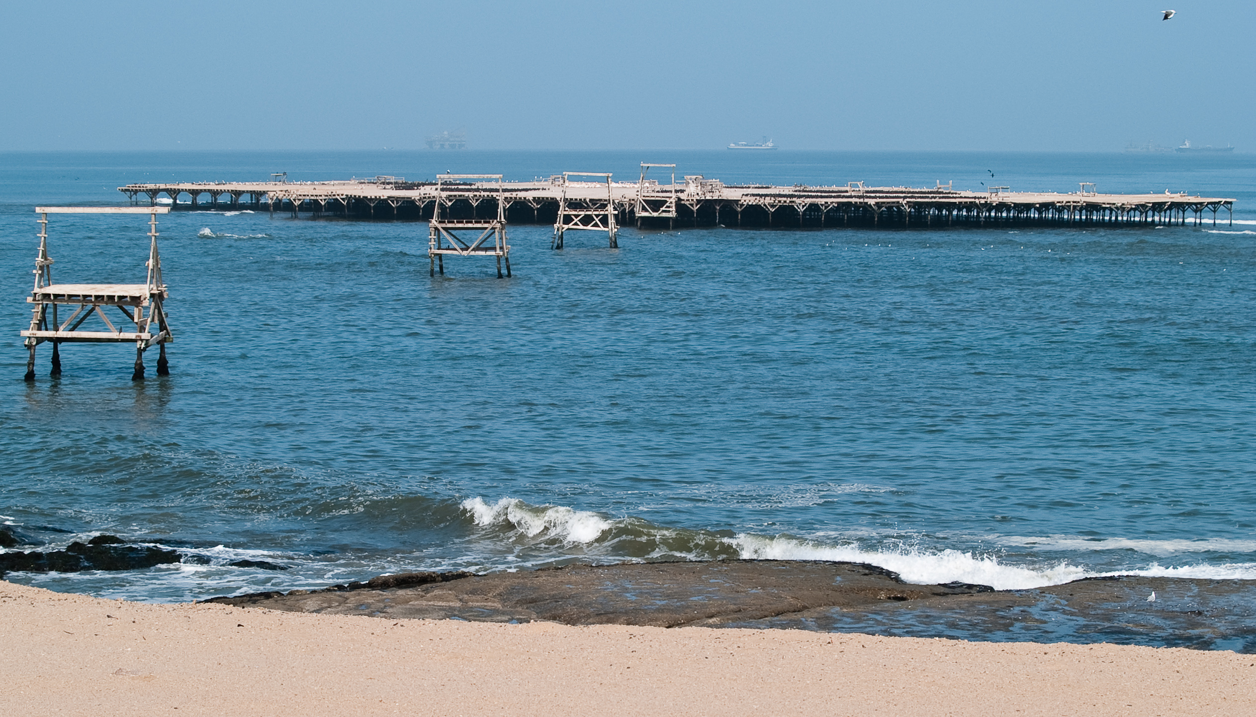 Wide view of Bird Island from Namibian coast near Walvis Bay